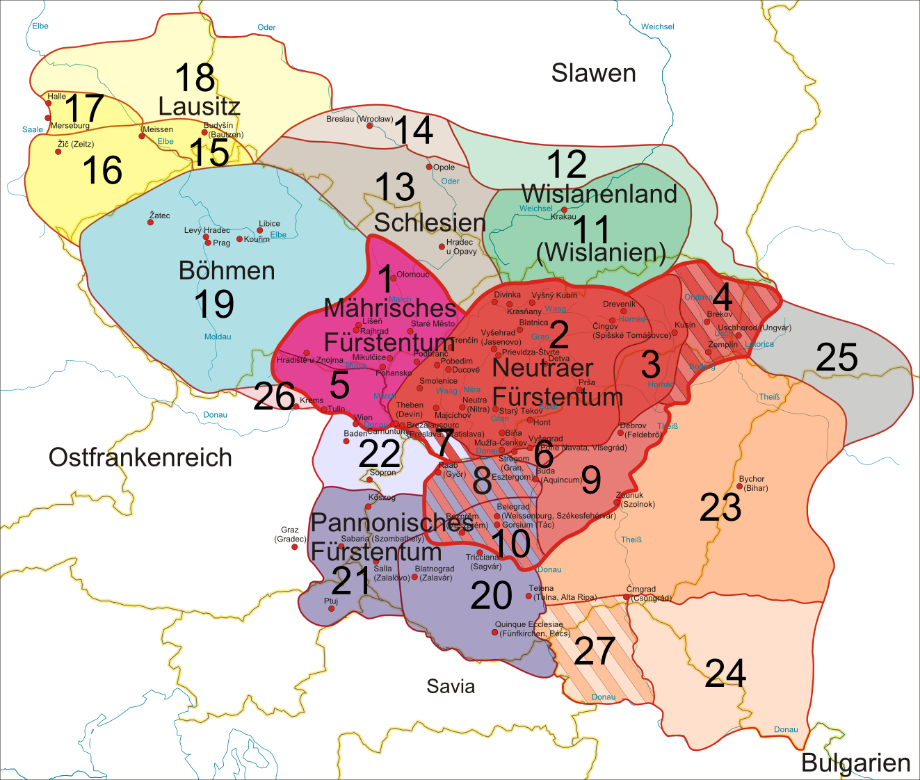 Historical map of Great Moravia